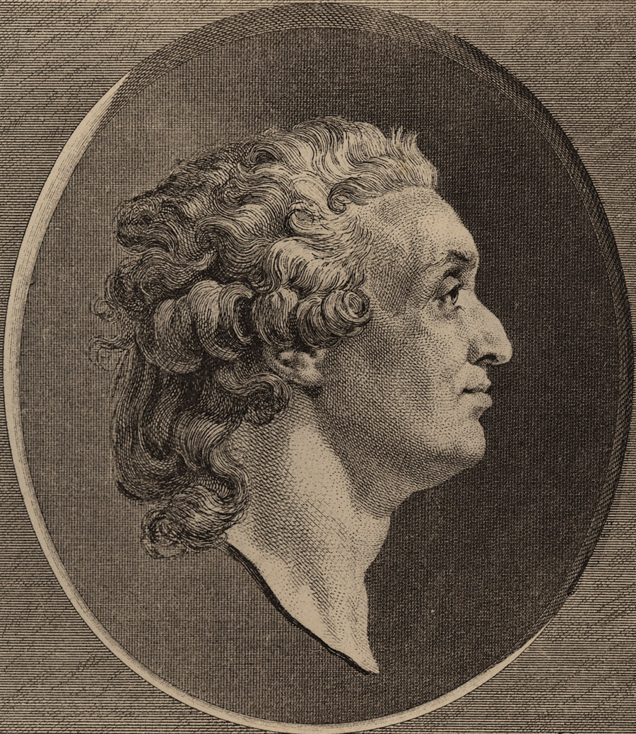 Marie Jean Antoine Nicolas Caritat, marquis de Condorcet (1743-1794), French philosopher, mathematician, and political scientist.